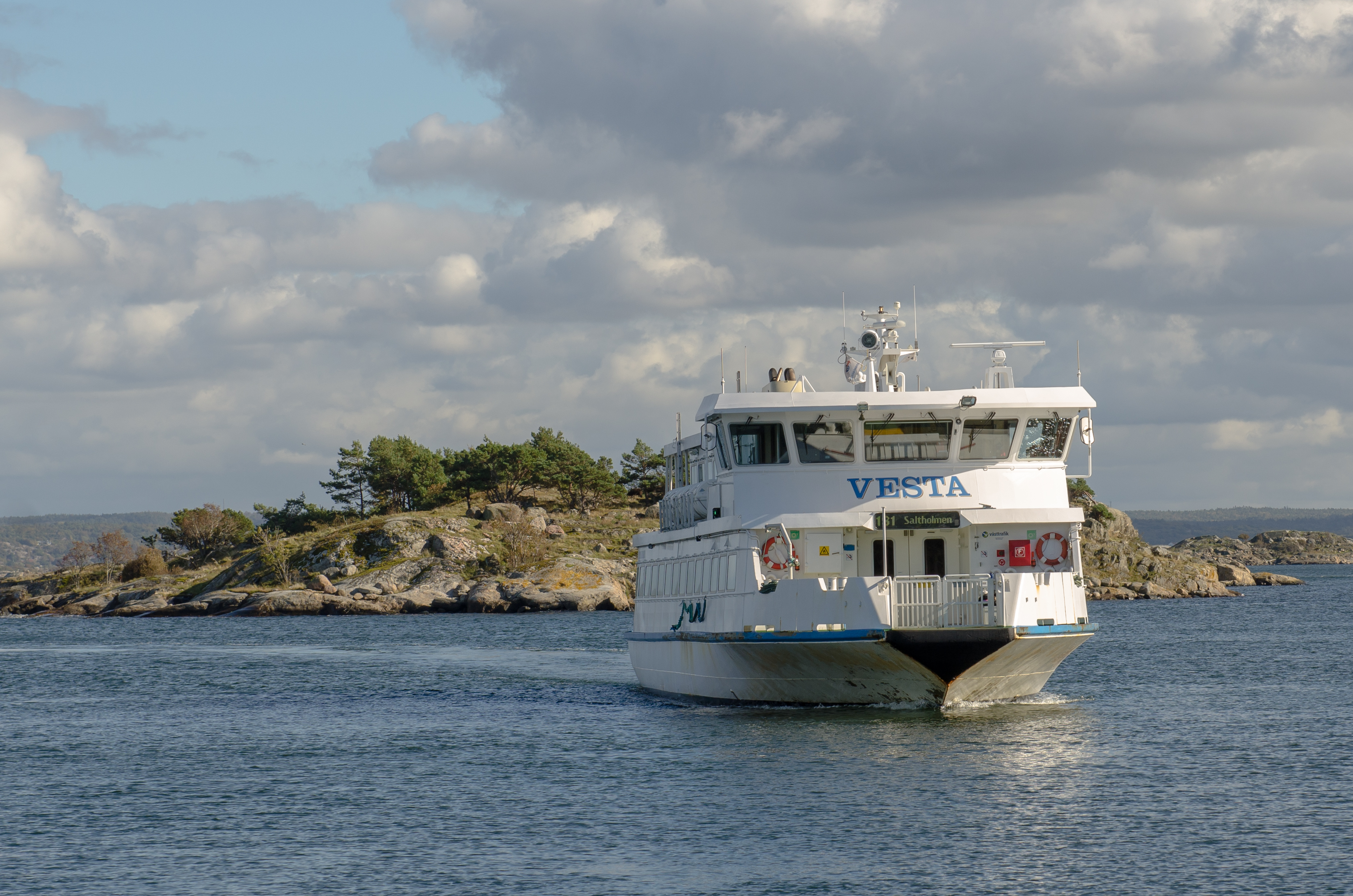 M/S Vesta outside Styrsö Island in Gothenburg archipelago, Västra Götaland County, Sweden.